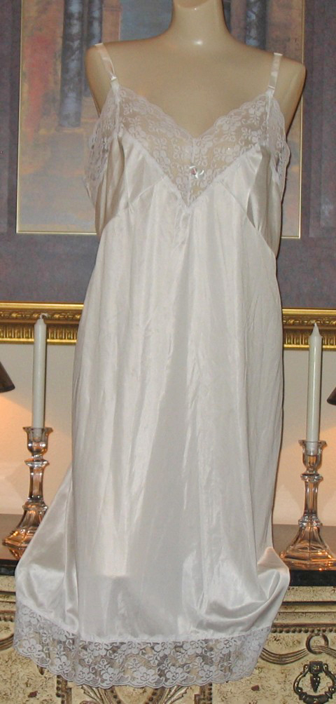 Own work, lacy full slip